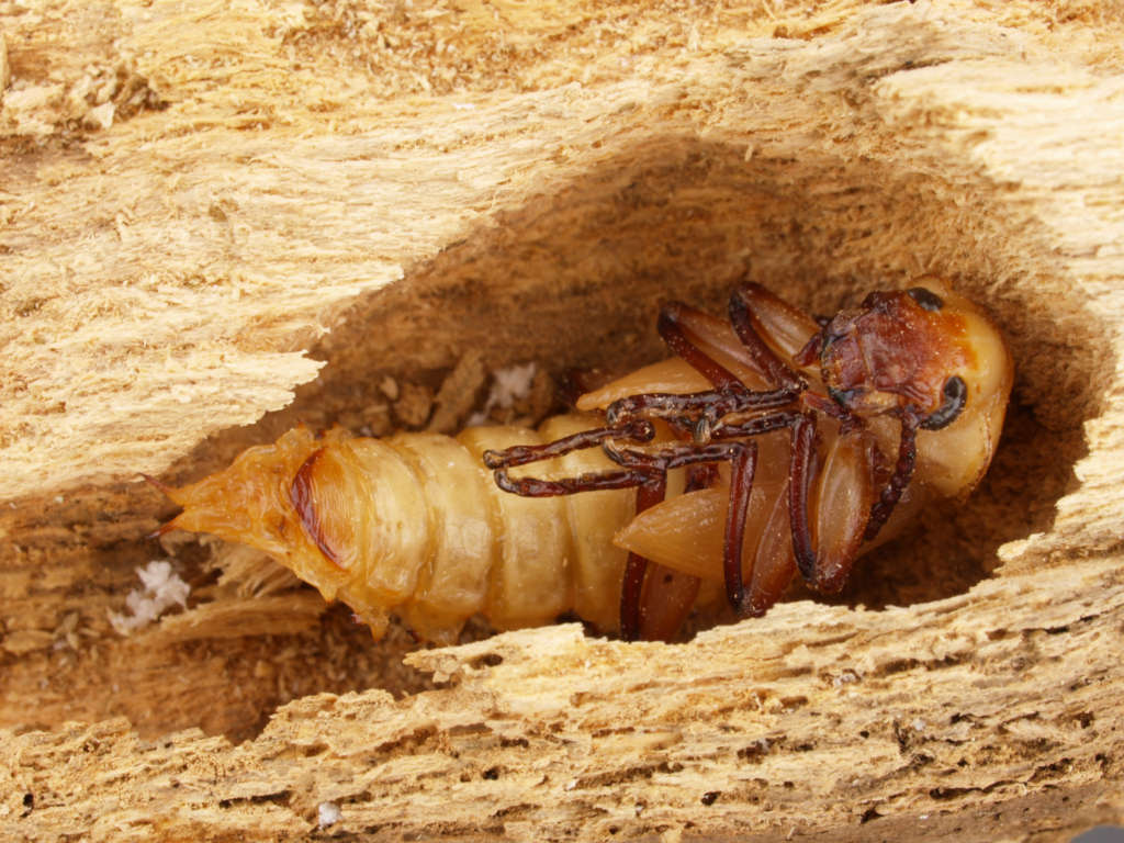 Pupa of morio beetle, 1 day before eclosion.